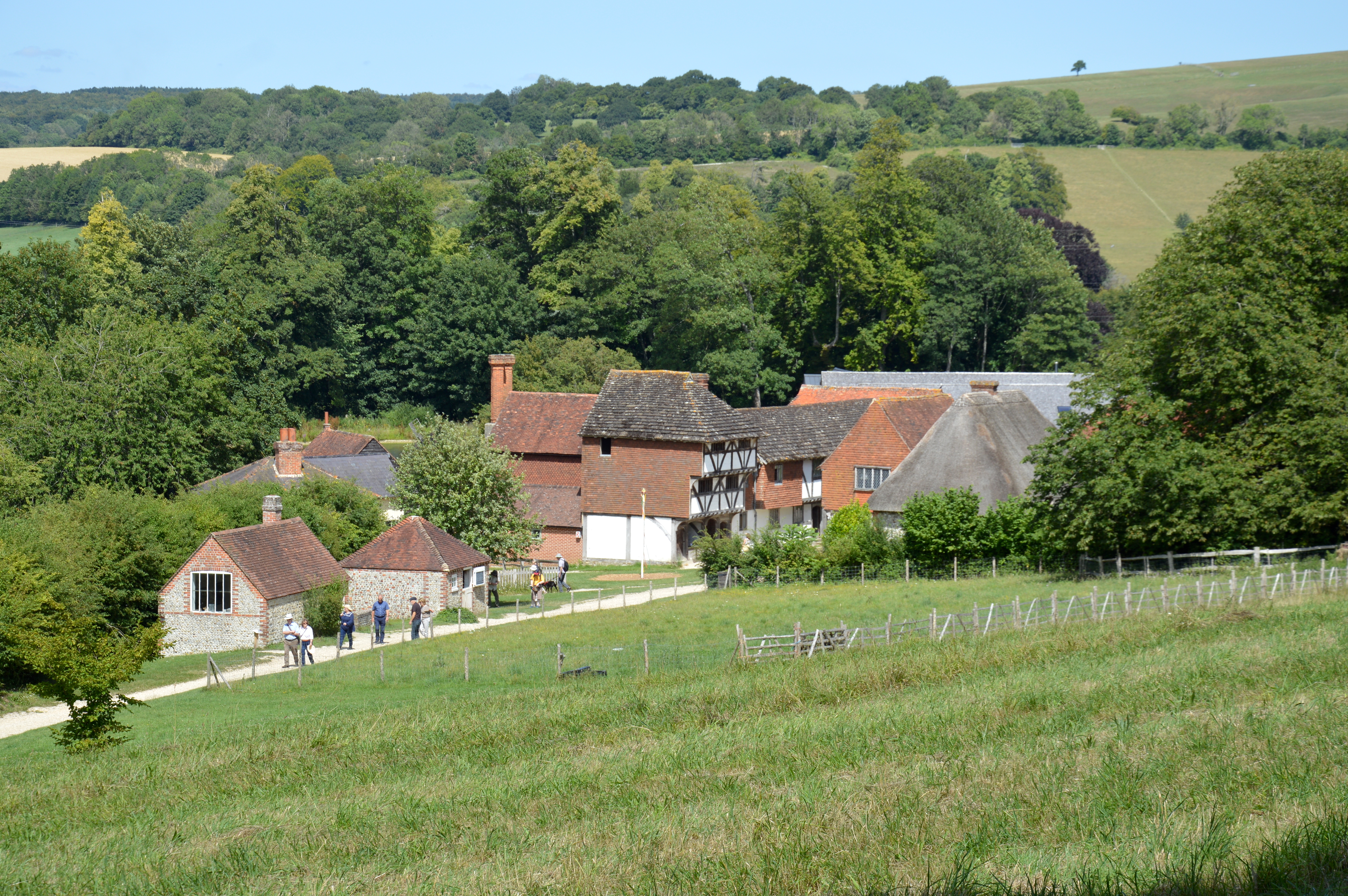 View on the 'village' around the market square at the heart of the Weald and Downland Living Museum in Singleton.